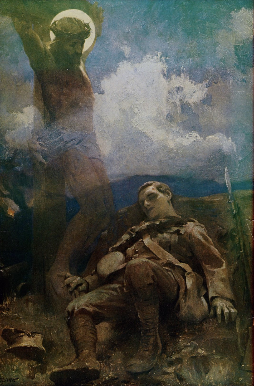 James Clark (1858-1943) was an English artist. His 1914 painting The Great Sacrifice became an enormously popular print after it was reproduced in the 1914 Christmas edition of The Graphic.